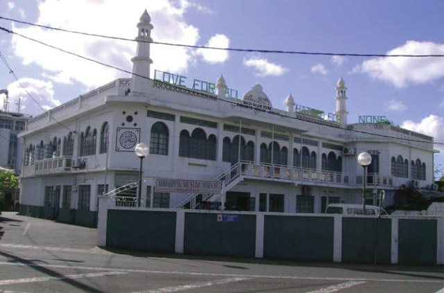 Dar-us-Salam Mosque, Rosehill, Mauritius